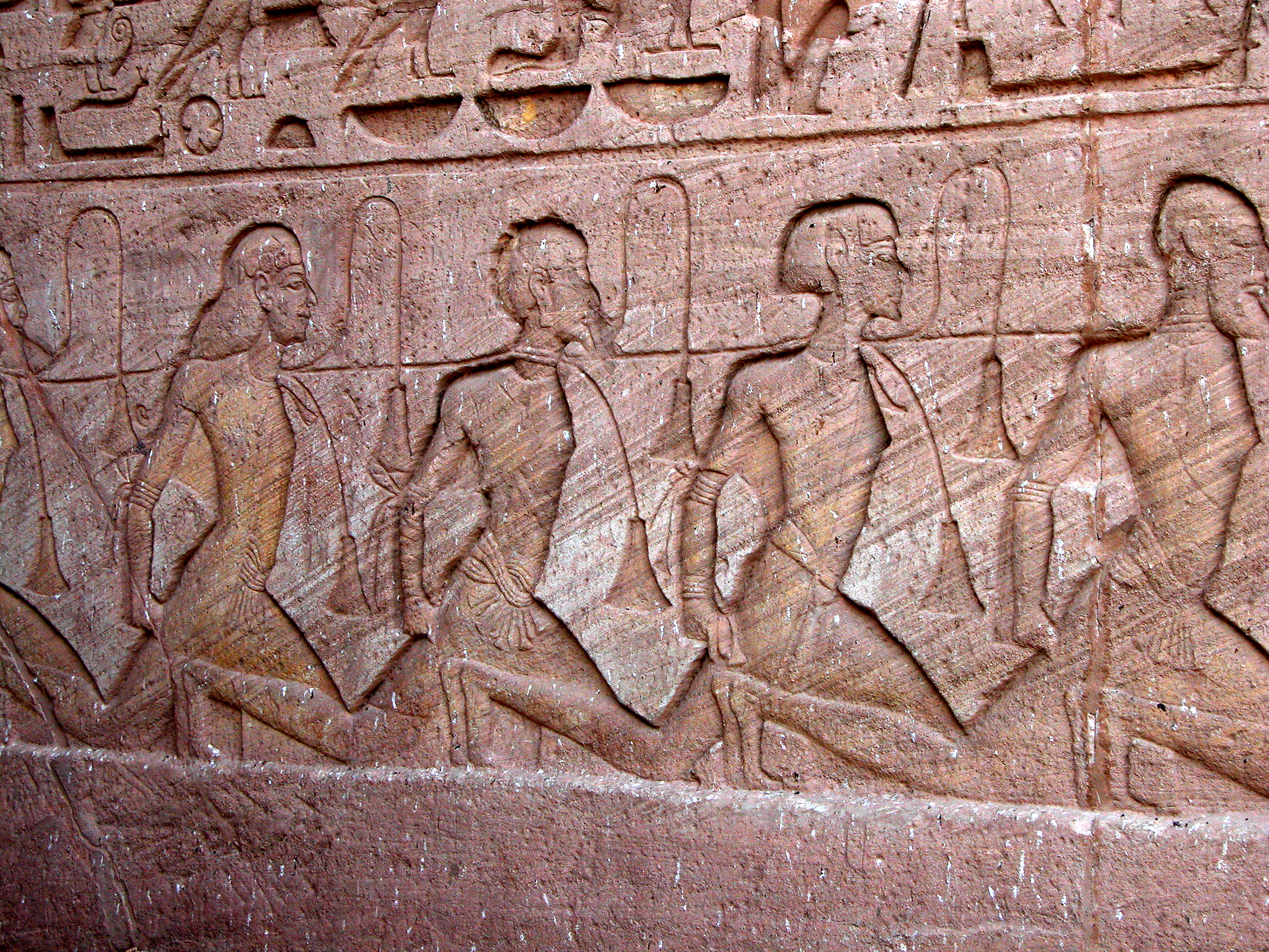 Below the statue of Rameses II are pictures of captive slaves.